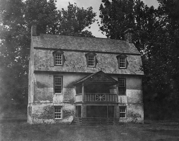 Land's End, Severn River, Naxera vicinity (Gloucester County, Virginia) cropped This file comes from the Historic American Buildings Survey (HABS), Historic American Engineering Record (HAER) or Historic American Landscapes Survey (HALS). These are programs of the National Park Service established for the purpose of documenting historic places. Records consist of measured drawings, archival photographs, and written reports. When reusing please credit: Library of Congress, Prints & Photographs Division, VA,37-NAX.V,1-2 This tag does not indicate the copyright status of the attached work. A normal copyright tag is still required. See Commons:Licensing for more information. This work is in the public domain in the United States because it is a work prepared by an officer or employee of the United States Government as part of that person’s official duties under the terms of Title 17, Chapter 1, Section 105 of the US Code. See Copyright. Note: This only applies to original works of the Federal Government and not to the work of any individual U.S. state, territory, commonwealth, county, municipality, or any other subdivision. This template also does not apply to postage stamp designs published by the United States Postal Service since 1978. (See § 313.6(C)(1) of Compendium of U.S. Copyright Office Practices). It also does not apply to certain US coins; see The US Mint Terms of Use. This file has been identified as being free of known restrictions under copyright law, including all related and neighboring rights. Object location37° 19′ 35″ N, 76° 25′ 34″ W